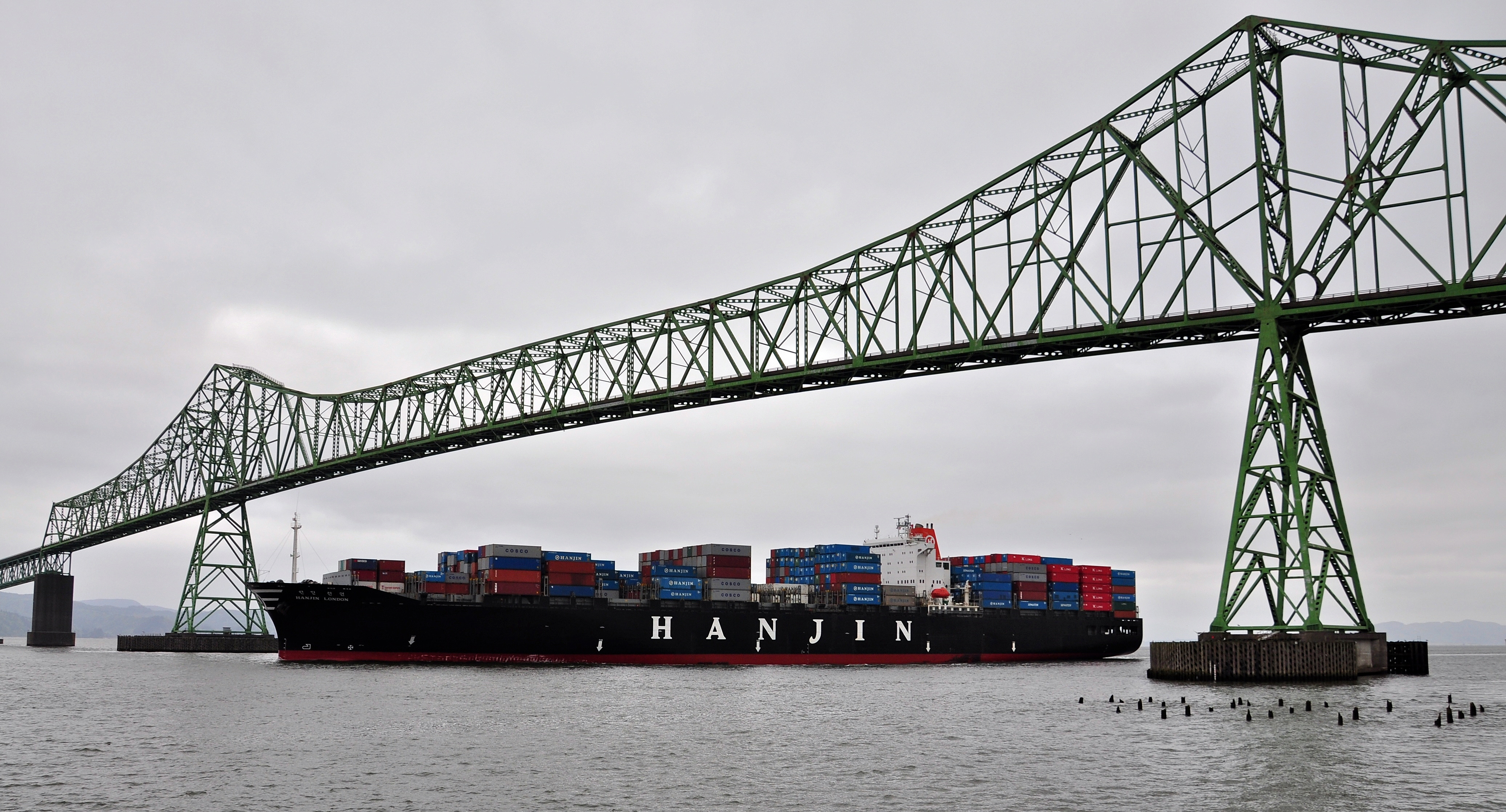 Container ship Hanjin London passing the Astoria-Megler Bridge in Astoria, Oregon